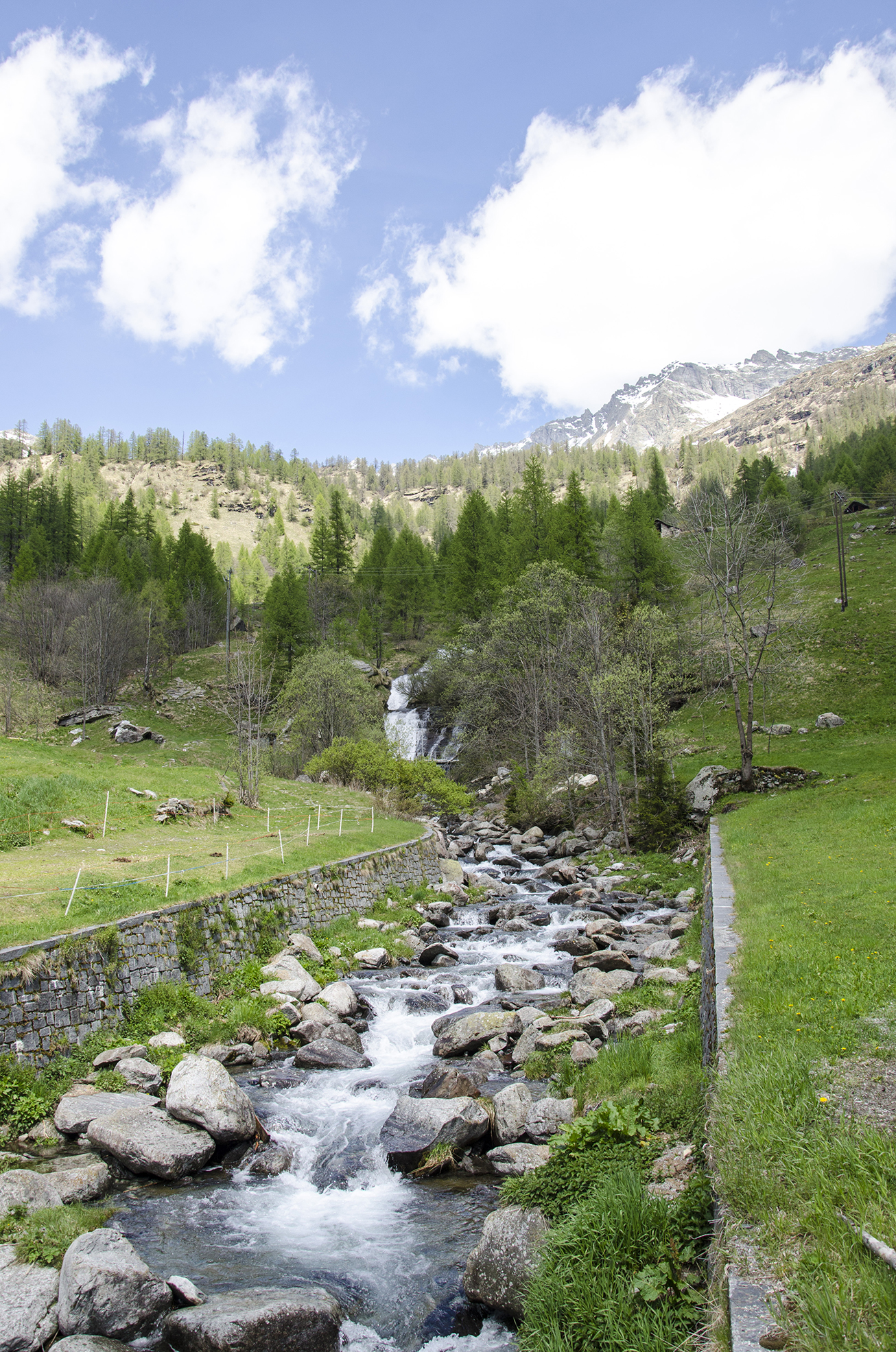 Progetto Parco Nazionale del Locarnese - Bosco Gurin - Riale di Bosco